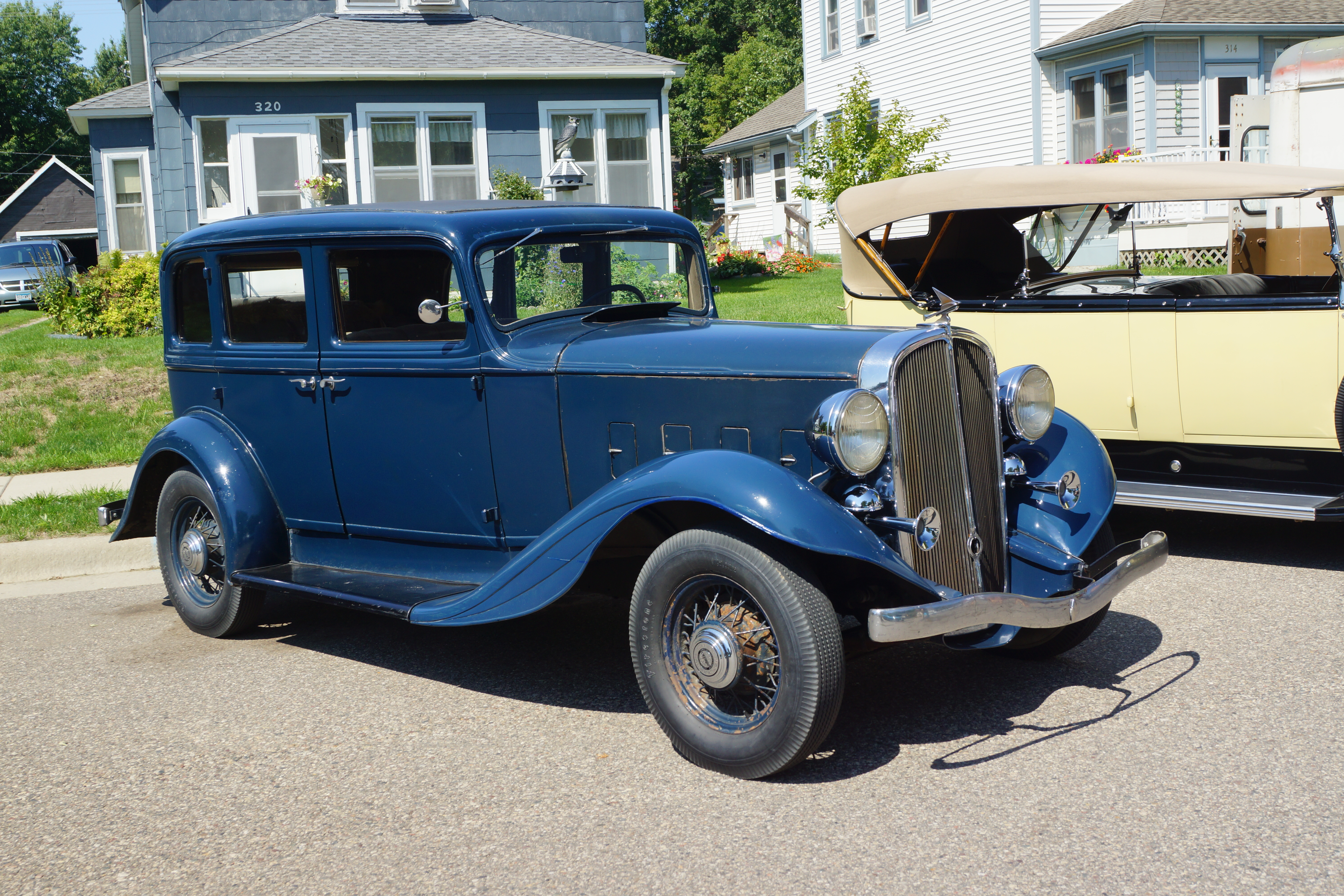 1934 Franklin Olympic